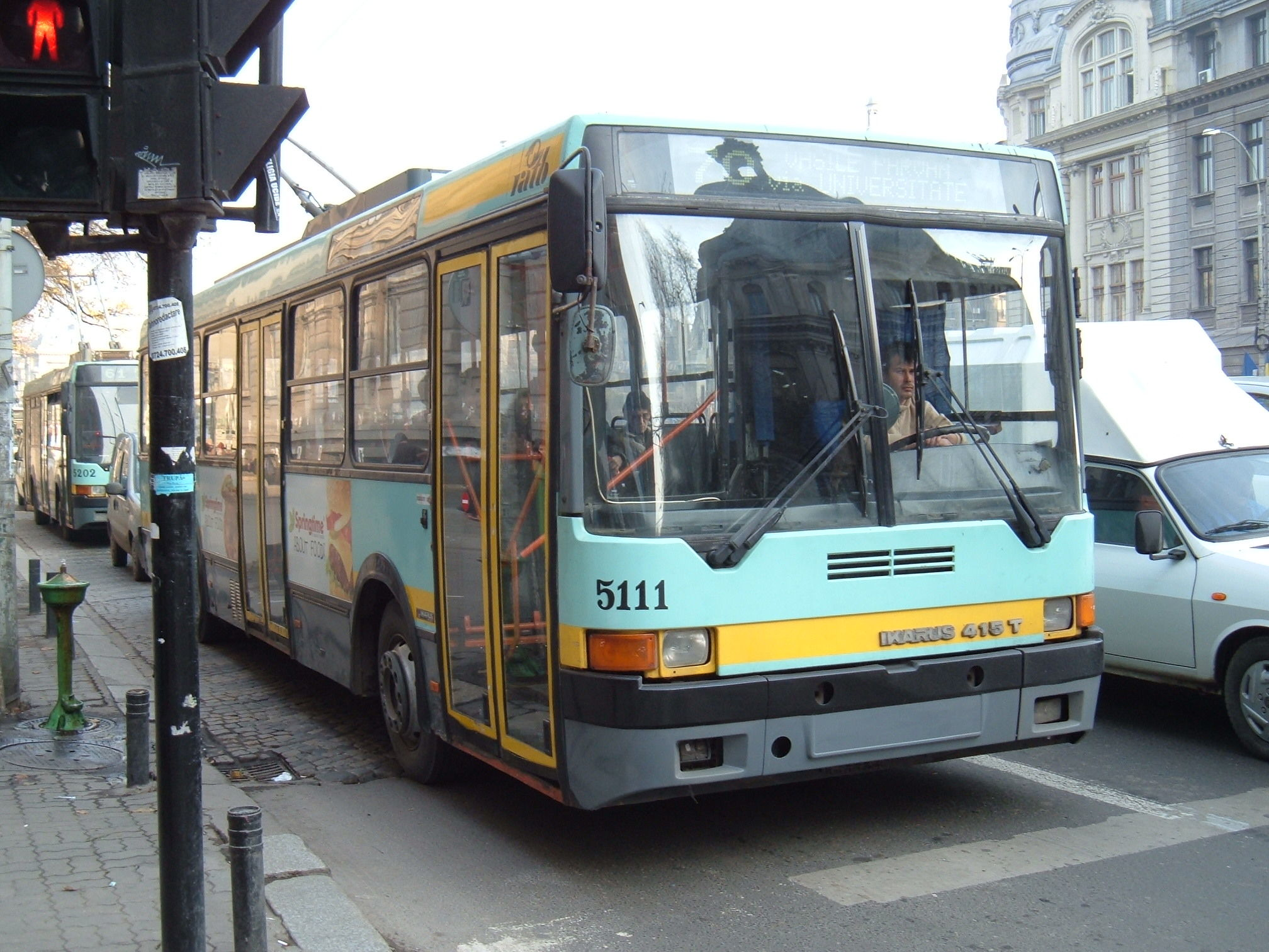 Public trolleybus in Bucharest, Romania (Ikarus 415.80 T type). Year built 1997. RATB București company.